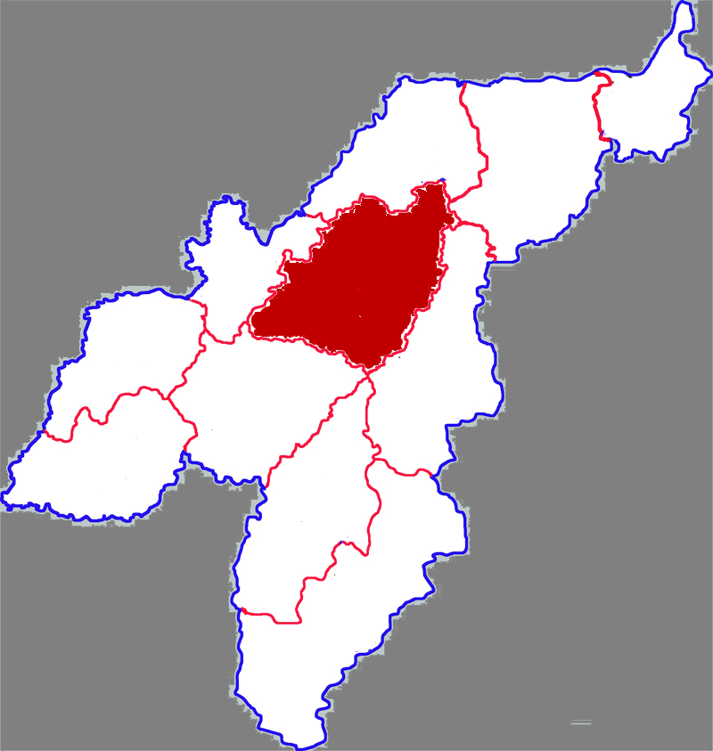 Location of Ling county in Dezhou City, China